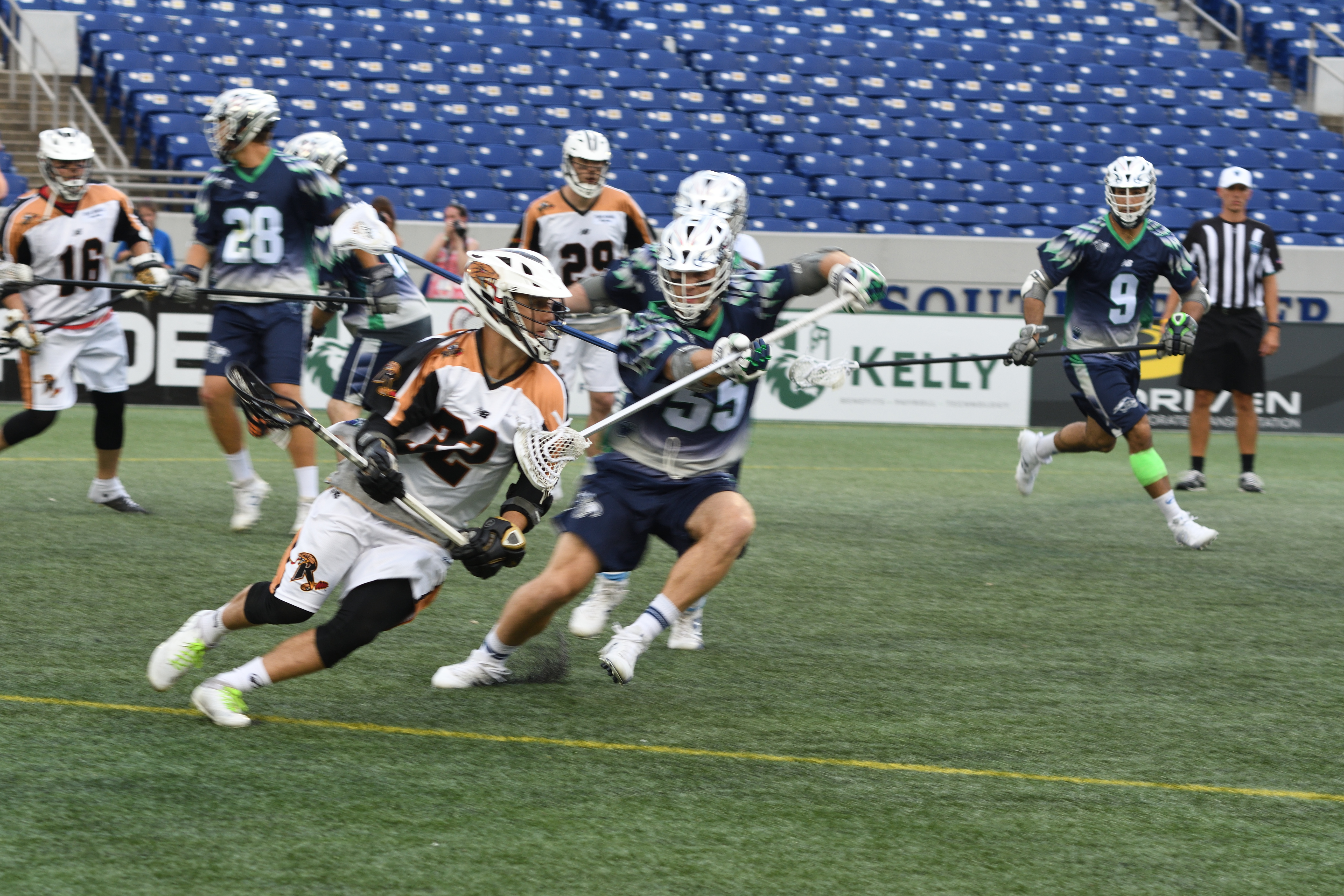 Ned Crotty dodging a Chesapeake Bayhawk defender.